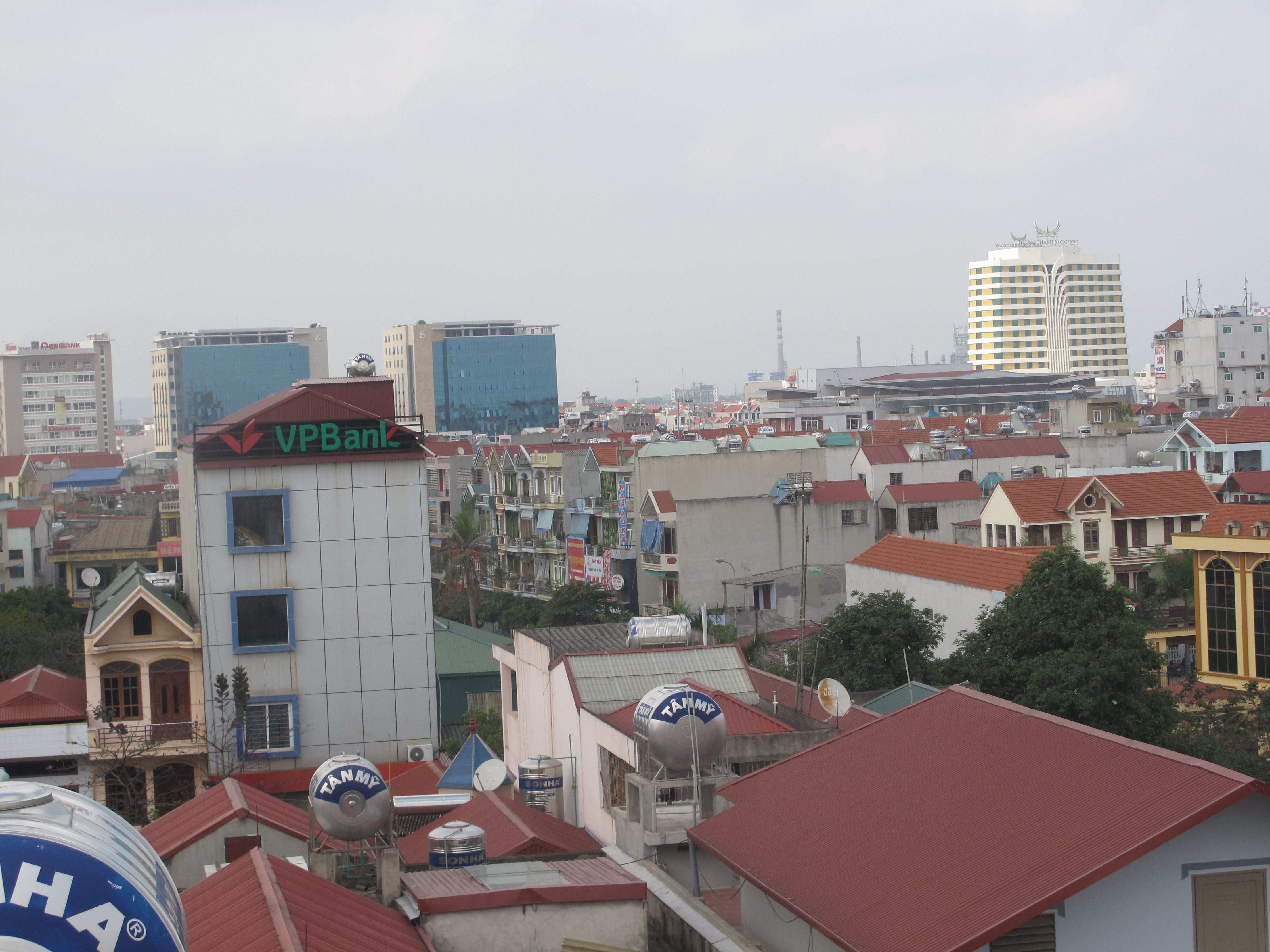 Bac giang city by Thien Dung